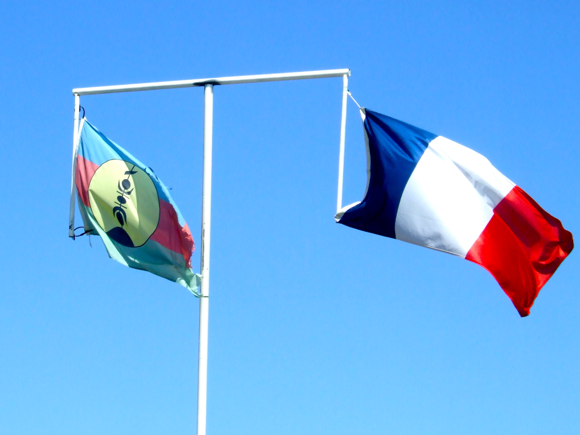 Two official flags of New Caledonia flying in Nouméa side by side from crossbar on flagpole. Other information Photo by George Garrigues.